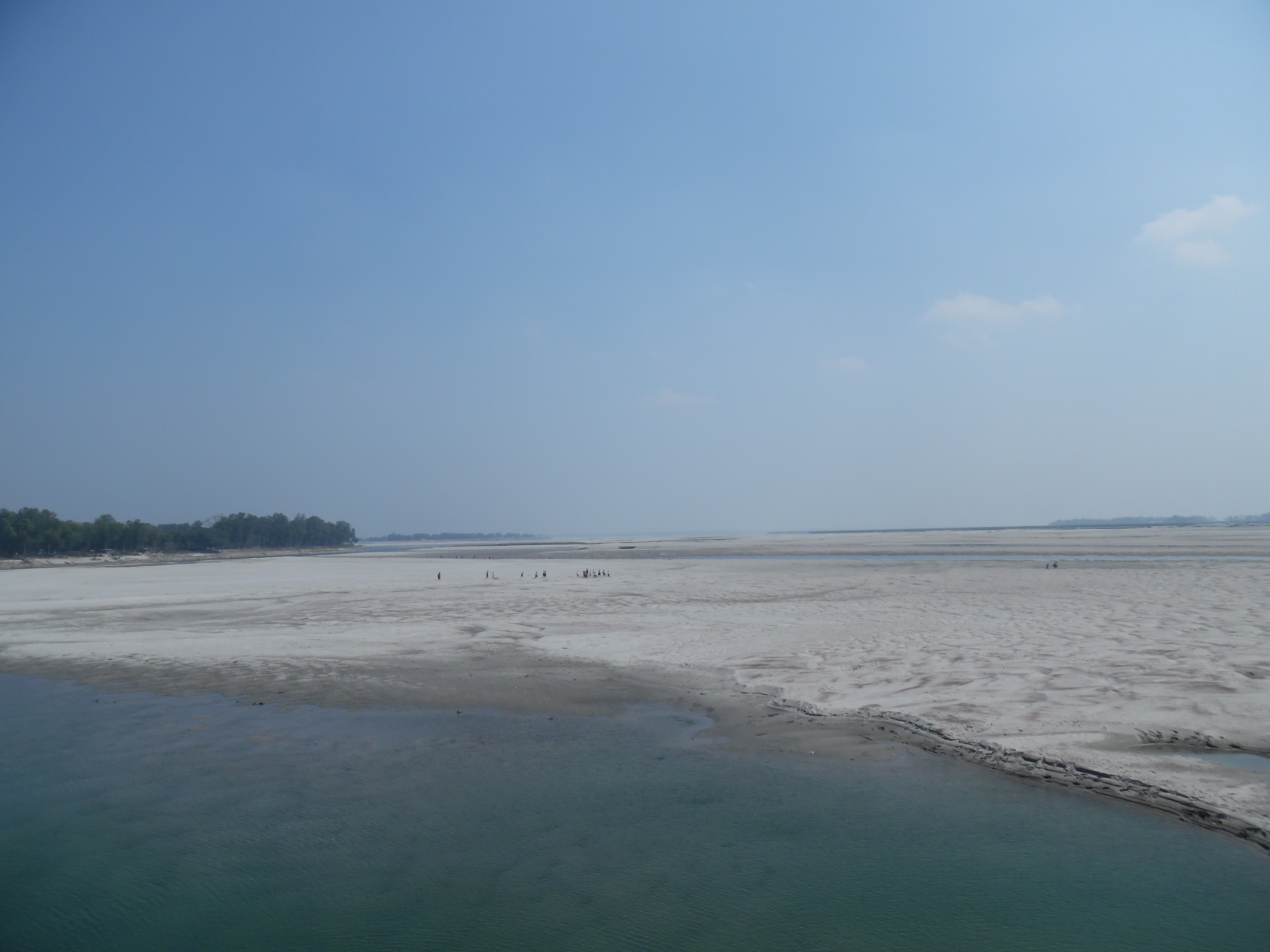 View of the Teesta river from Teesta Bridge on 01.03.2019. Downstream. Bangladesh.